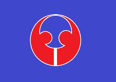 Flag of Toyoake Aichi